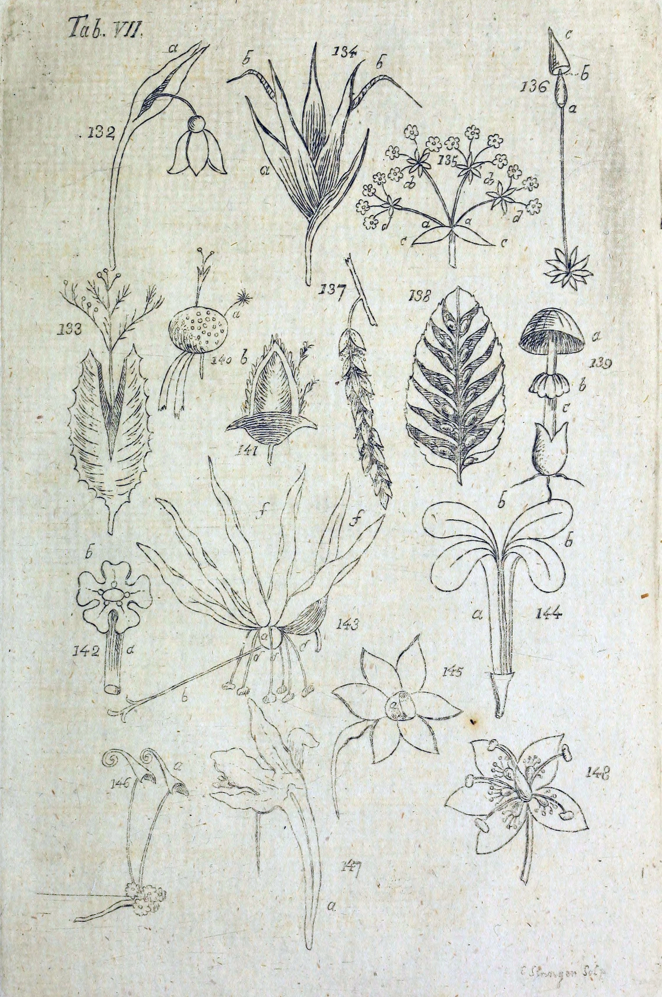 Plate VII. Parts of the flower (cropped, cleaned) // Linneus. A system of vegetables, according to their according to their classes orders genera species with their characters and differences… : in 2 vol. Translated from the thirteenth edition (as published by Dr. Murray) of the vegetabilium of the late professor Linnaeus; and from the Supplementum plantarum of the present professor Linnaeus ... by a botanical society, at Lichfield. Lichfield : Printed by John Jackson, for Leigh and Sotheby … London, 1783. Vol. 1 : Preface of the translators. Botanic terms and definitions … Classes I-XIII… OCLC 220040192.